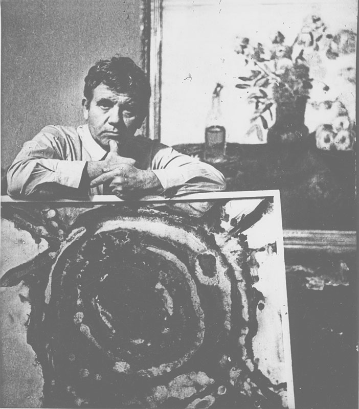 The Moldavian artist Mihai Grecu (70th years).